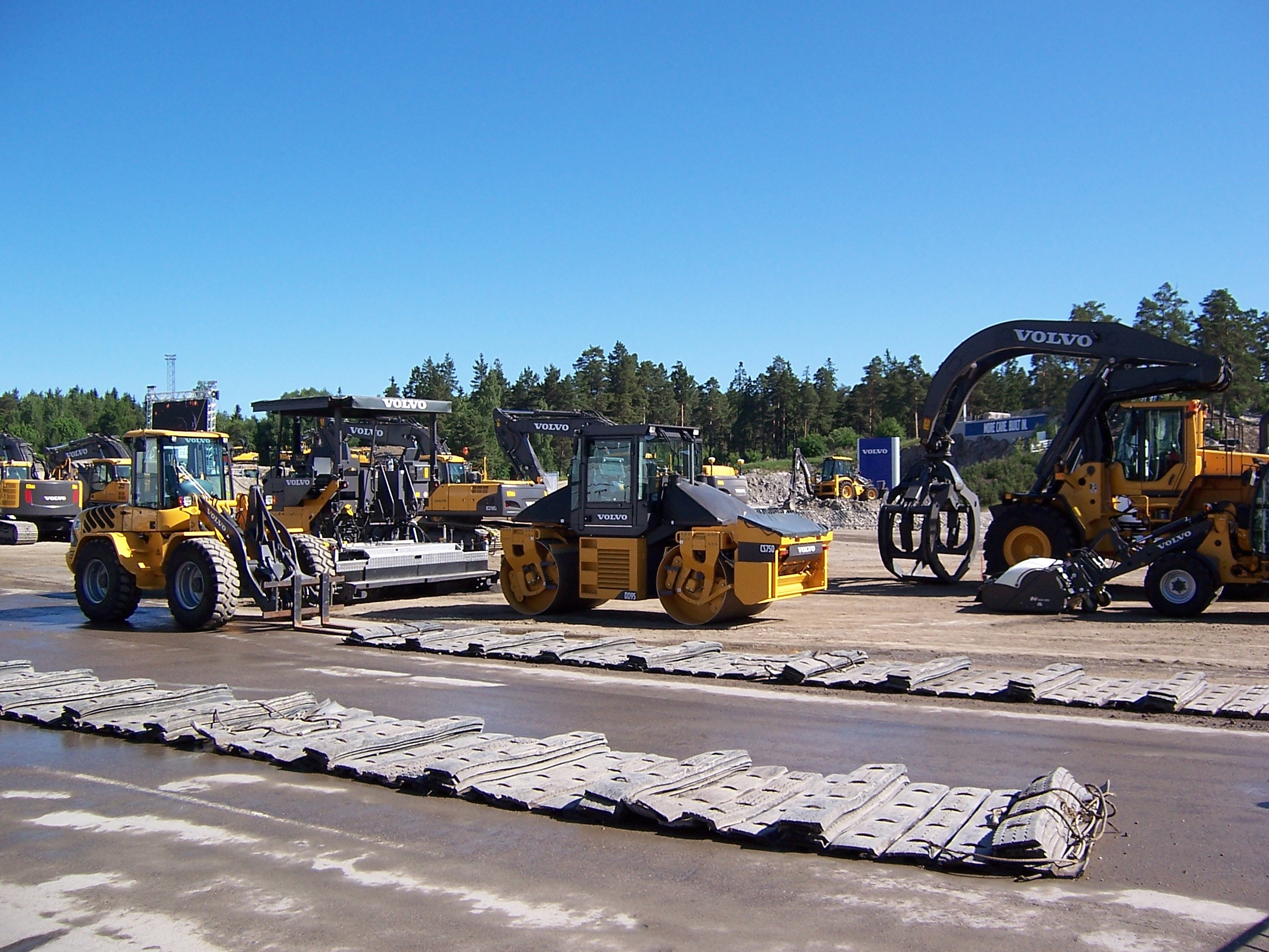 Volvo Days 2008 - heavy equipment show by Volvo Construction Equipment, Eskilstuna, Sweden, 2008.